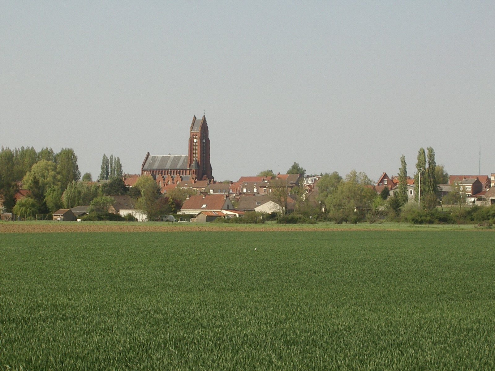 Merris